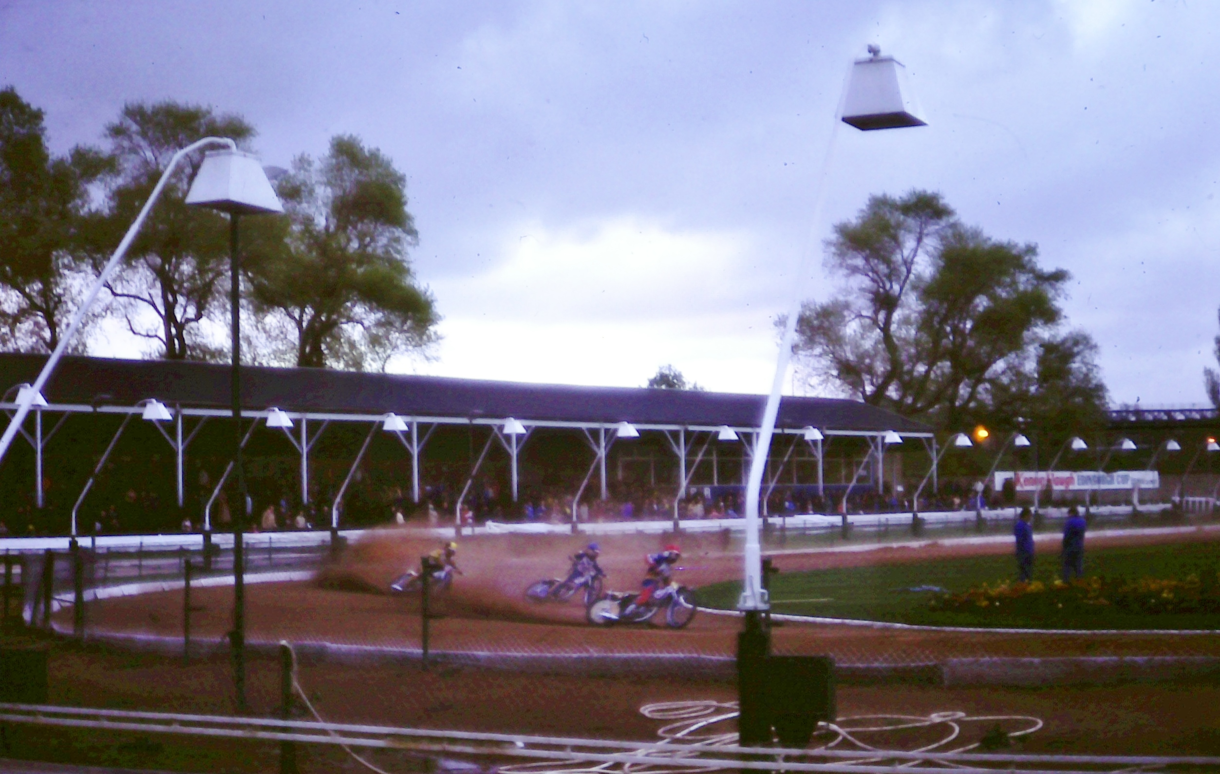 Edinburgh Monarchs versus Sheffield Tigers, Powderhall Stadium, Edinburgh, May 1982